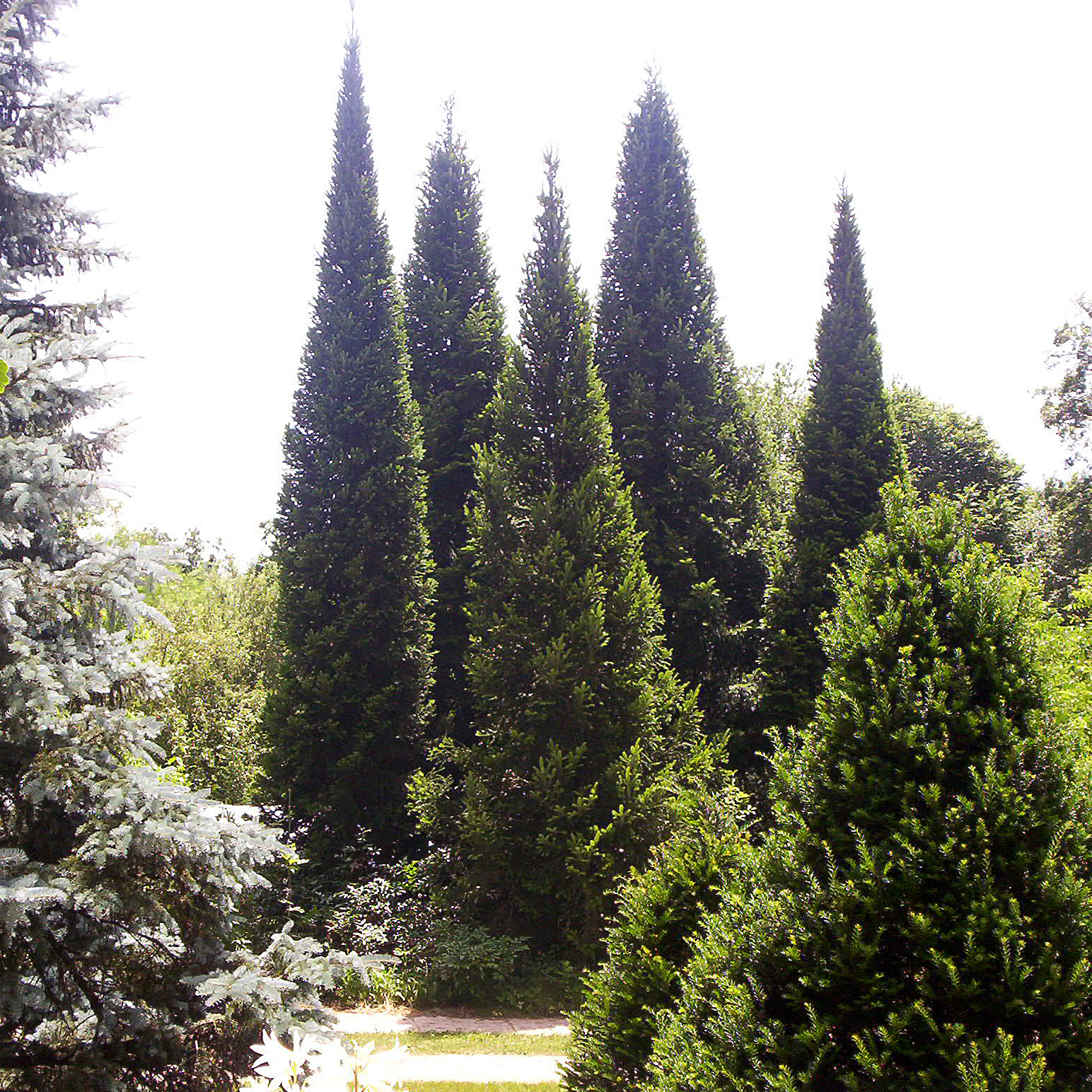 Pyramidal silver fir in Pozega (Serbia)